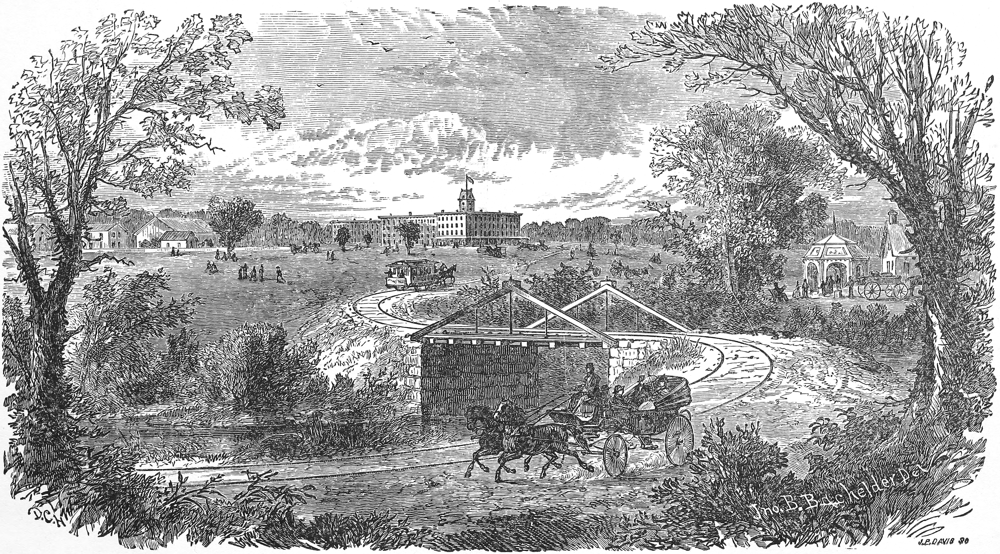 J. C. Davis illustration of carriage heading from Willoughby Run eastward into Herbst Woods toward Gettysburg, Pennsylvania, on Springs Hotel Avenue along the Horse Railroad. Westbound horse trolley (middle) and Springs Hotel (background),[1] buildings of Katalysine Springs (right)[1] included 12 apartments and subsequent 1895 Bath House.[2] Area became 20th century site of Gettysburg Country Club golf course acquired by National Park Service in 2011. For the "Springs Hotel -- Cupola" directional image which was "Entered according to Act of Congress 1872, by John B. Bachelder, in the office of the Librarian of Congress at Washington", see page 106.